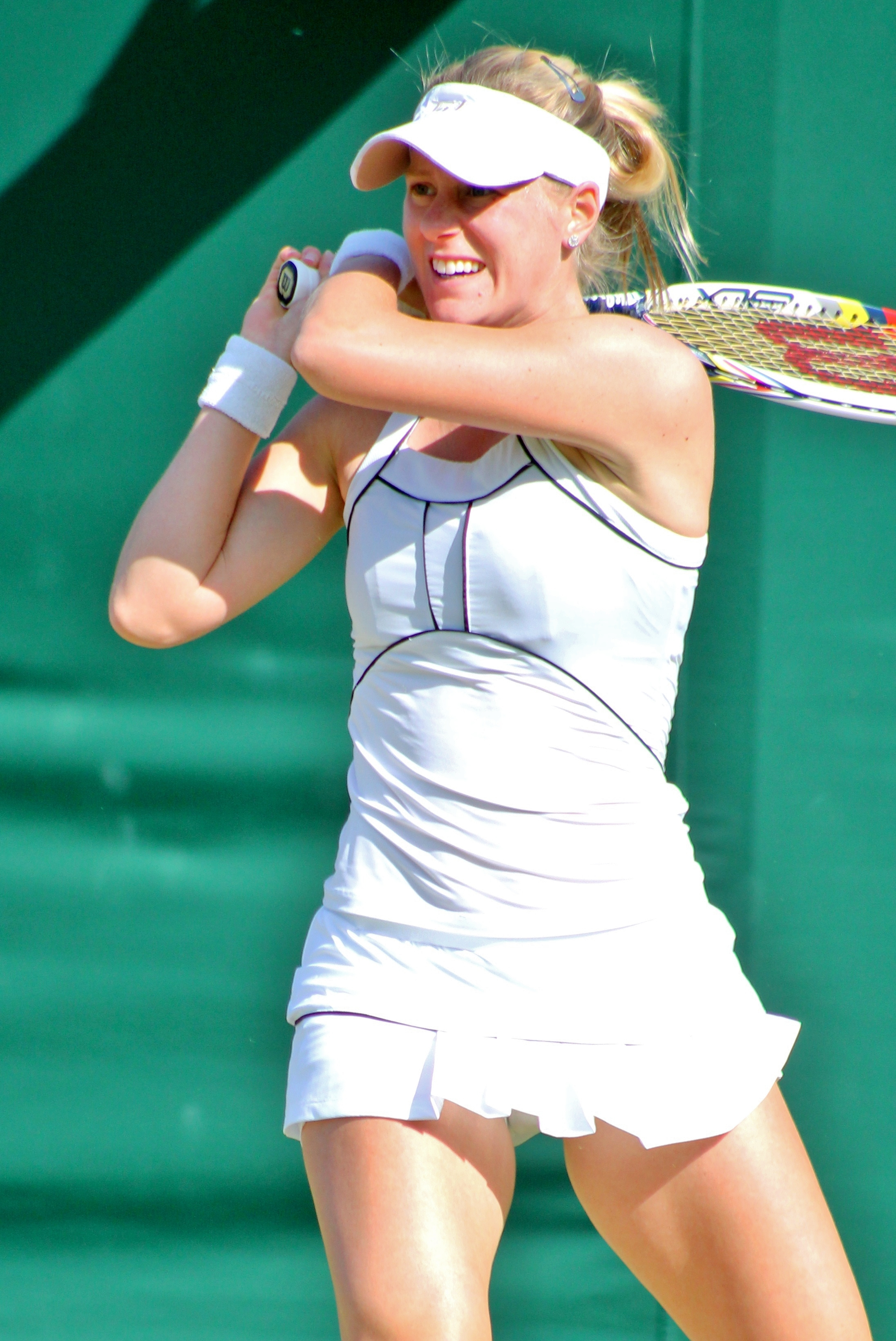 Alison Riske at 2013 Wimbledon